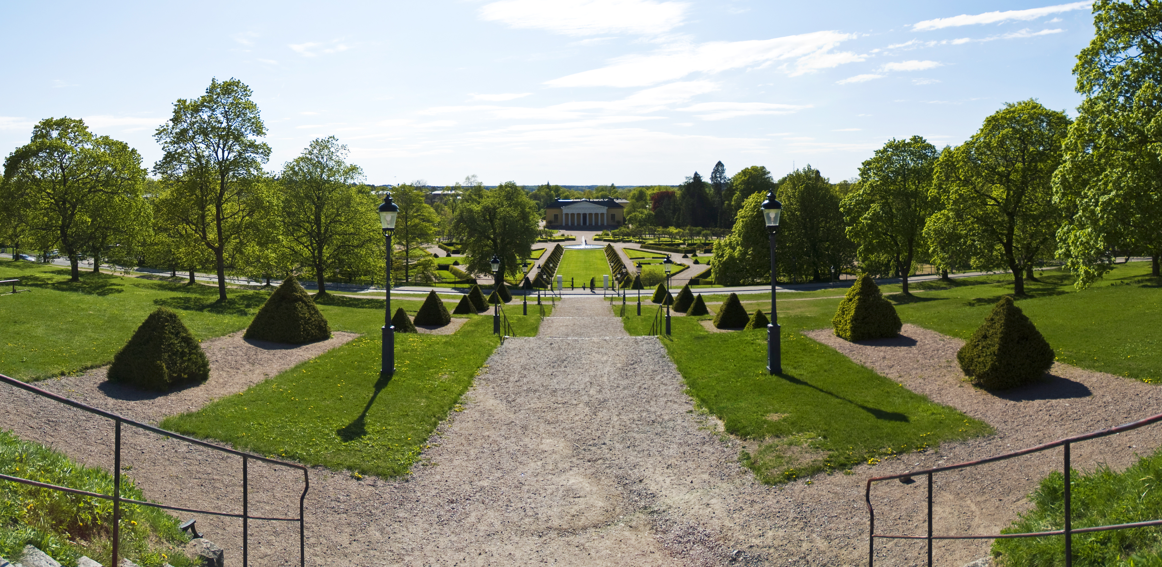 Panorama picture of the castle gardens of Uppsala slott.